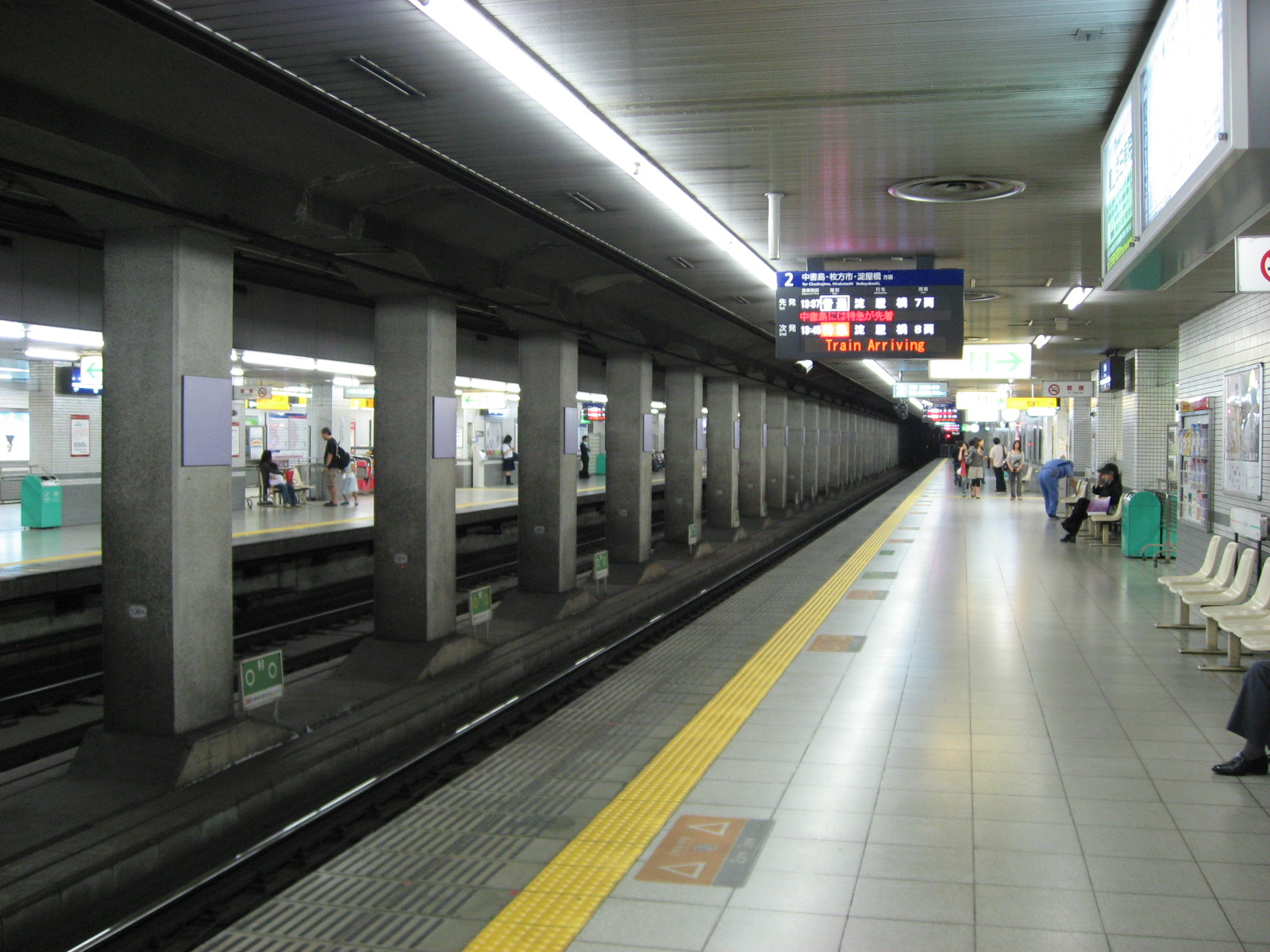 Keihan-Line shichijo sta. platform for Yodoyabashi.